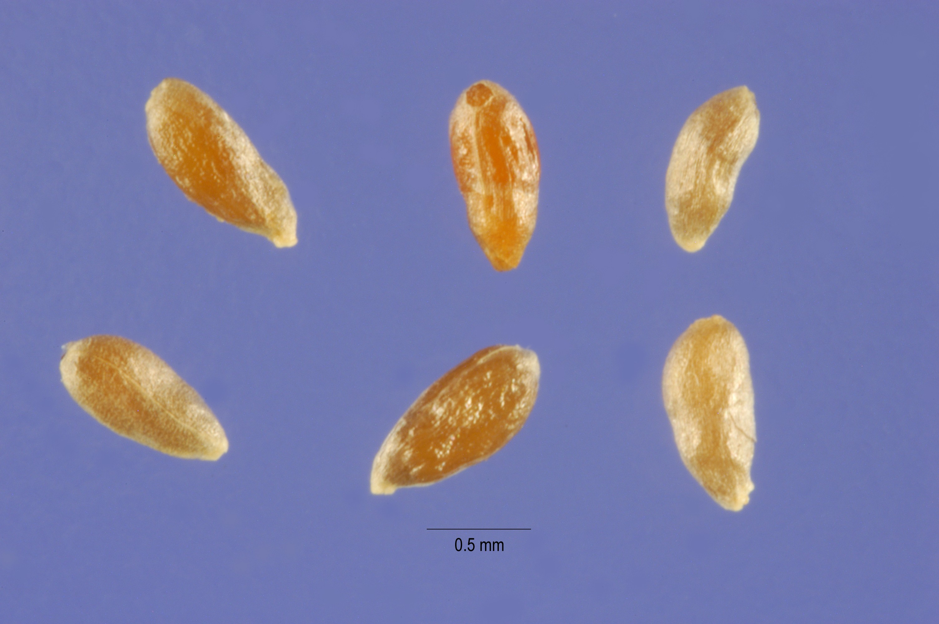 Artemisia filifolia seeds from Steve Hurst. Provided by ARS Systematic Botany and Mycology Laboratory. United States, NM, Albuquerque.